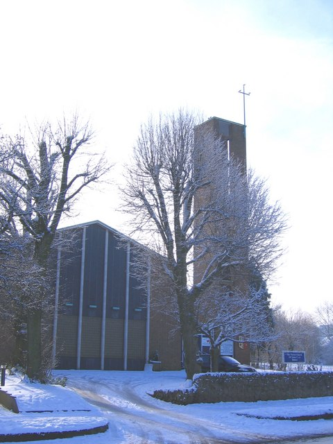 St Chads Church, New Road, Rubery